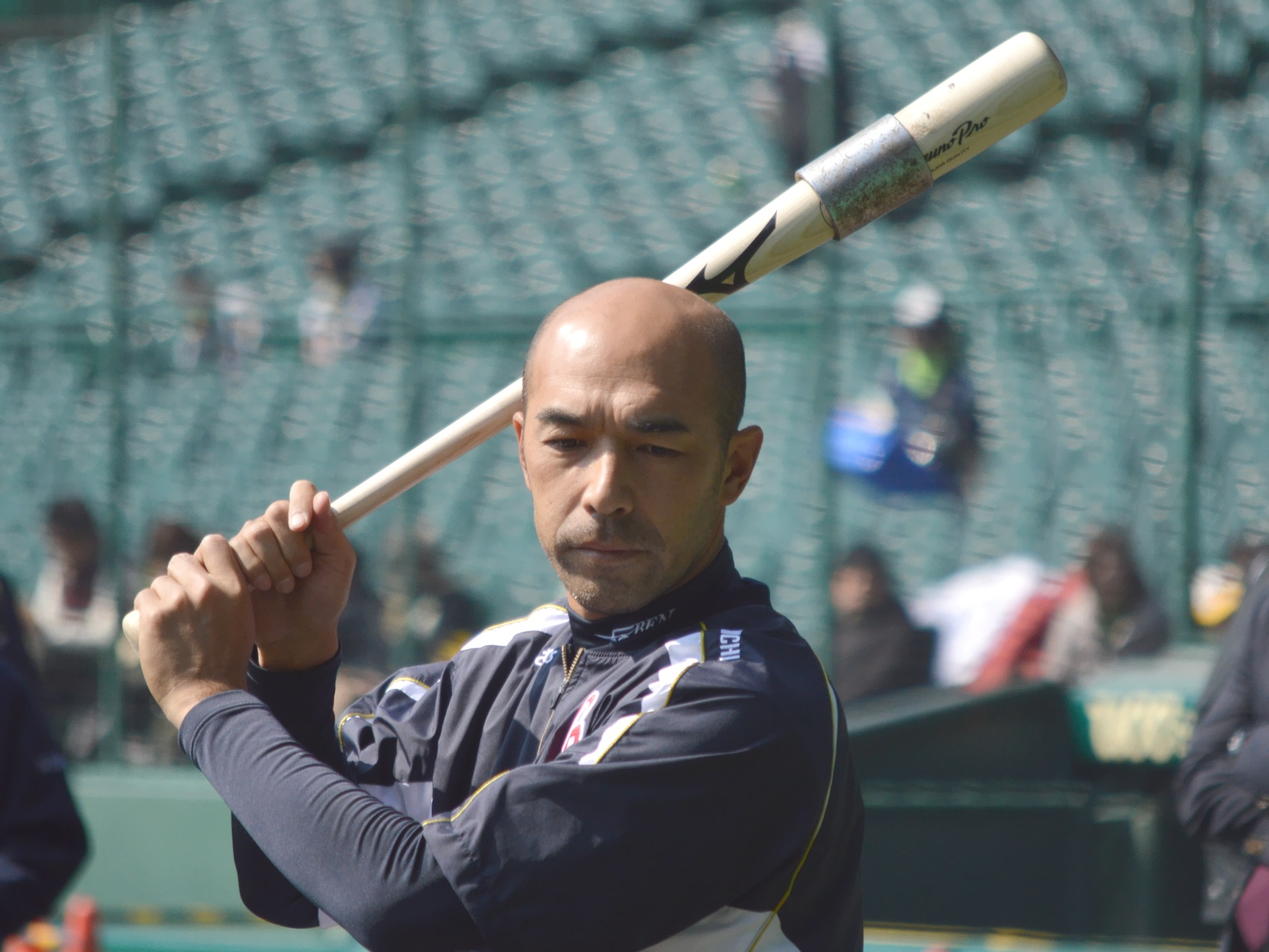 CD-Kazuhiro-Wada20130306